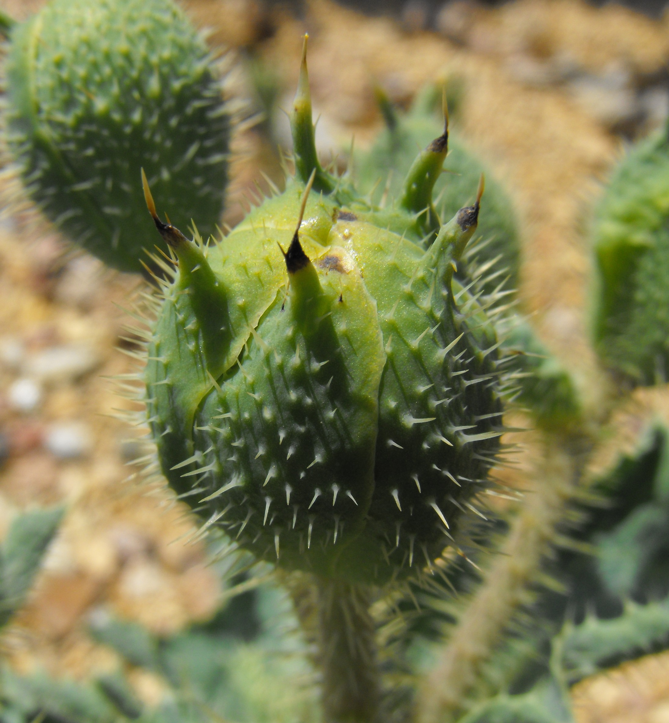 Bud of Argemone corymbosa at the San Diego Botanic Garden in Encinitas, California, USA. Identified by sign.